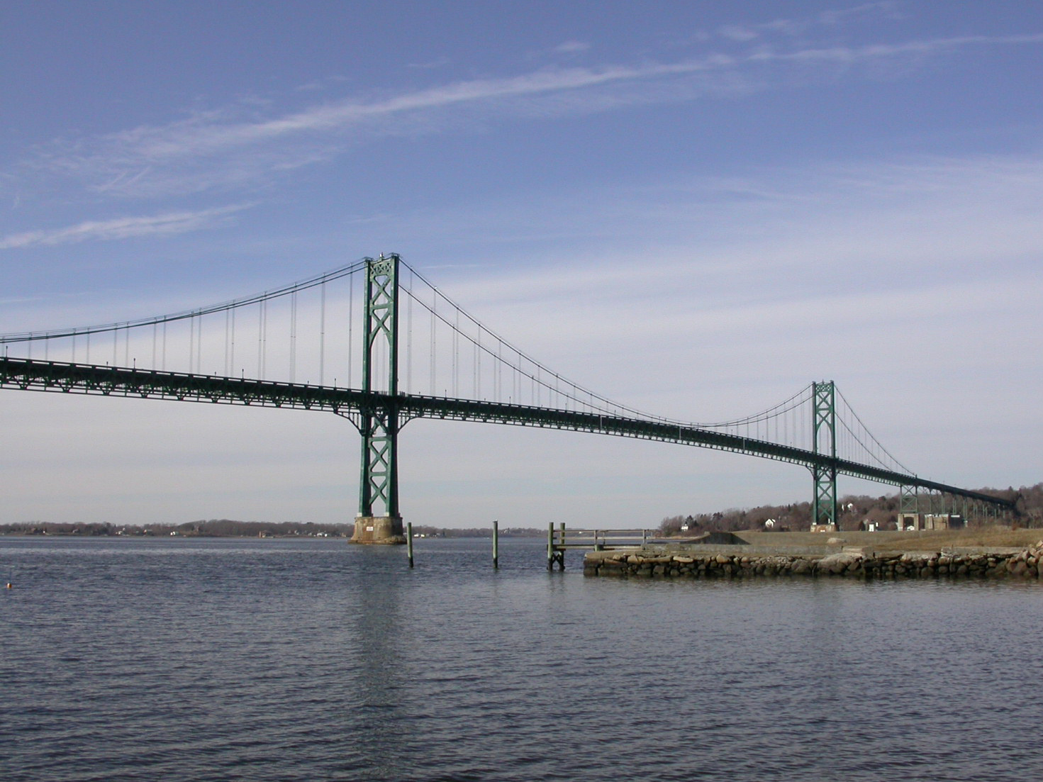 Mount Hope Bridge spanning the Mount Hope Bay in eastern Rhode Island